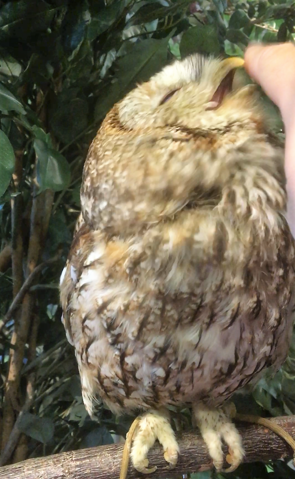 Tawny Owl / Strix aluco